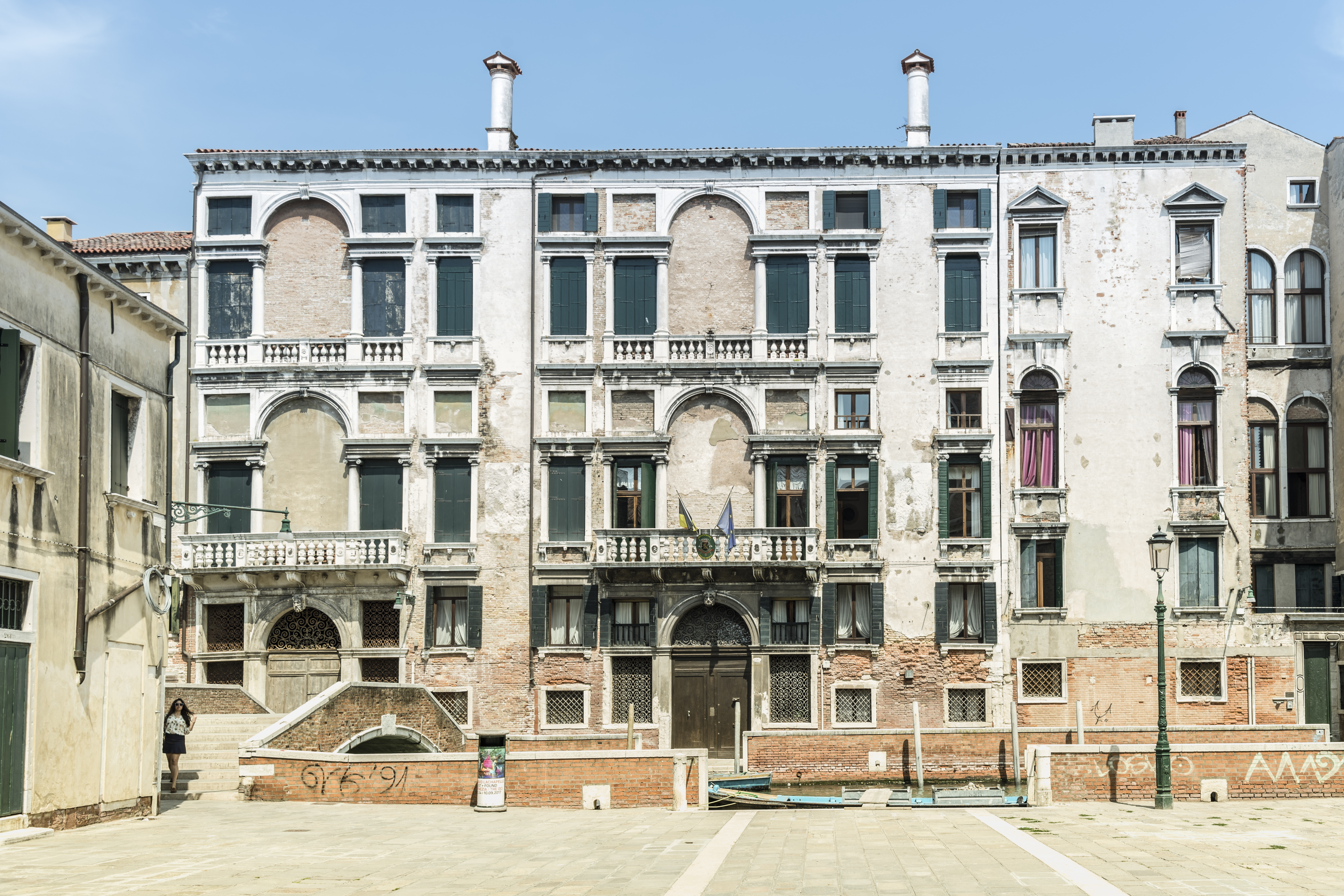 Facade of Palazzo Foscarini on campo dei Carmini in Venice.